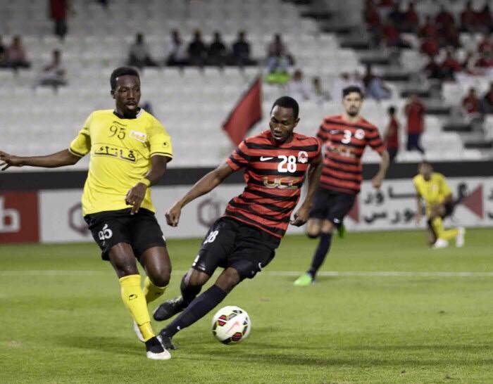 Abdoulaye Koffi in a match against Al Rayyan Club ; Ahmed bin Ali Stadium, Qatar